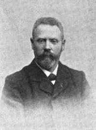 Thomas Christian Larsen (1854-1944), Danish politician, MP, Minister of Public Works